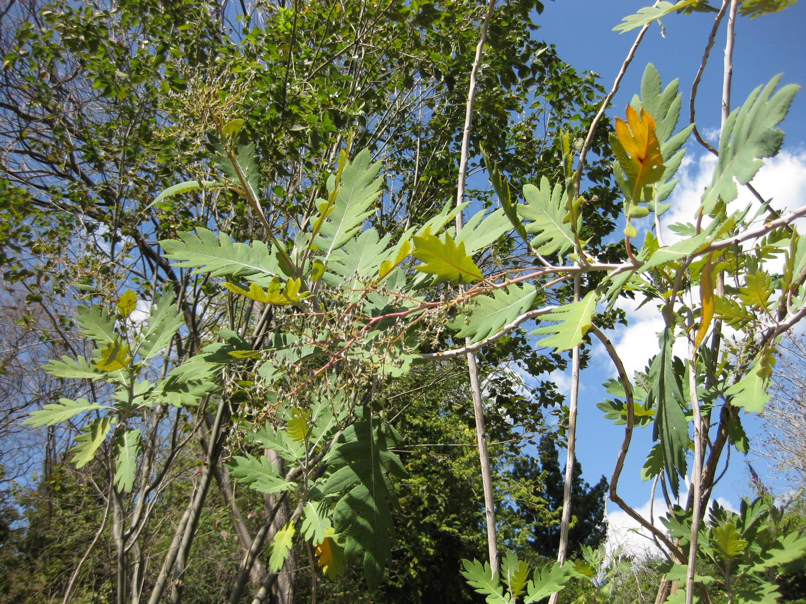 Photographed at Huntington Gardens (Los Angeles, California) in March